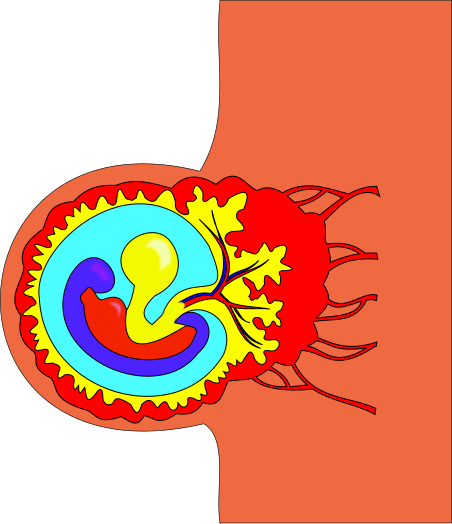 unlabeled cartoon of gastrula stage human embryo